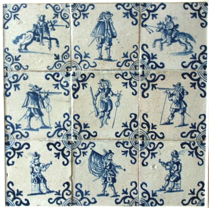 Decorated tiles showing an army.